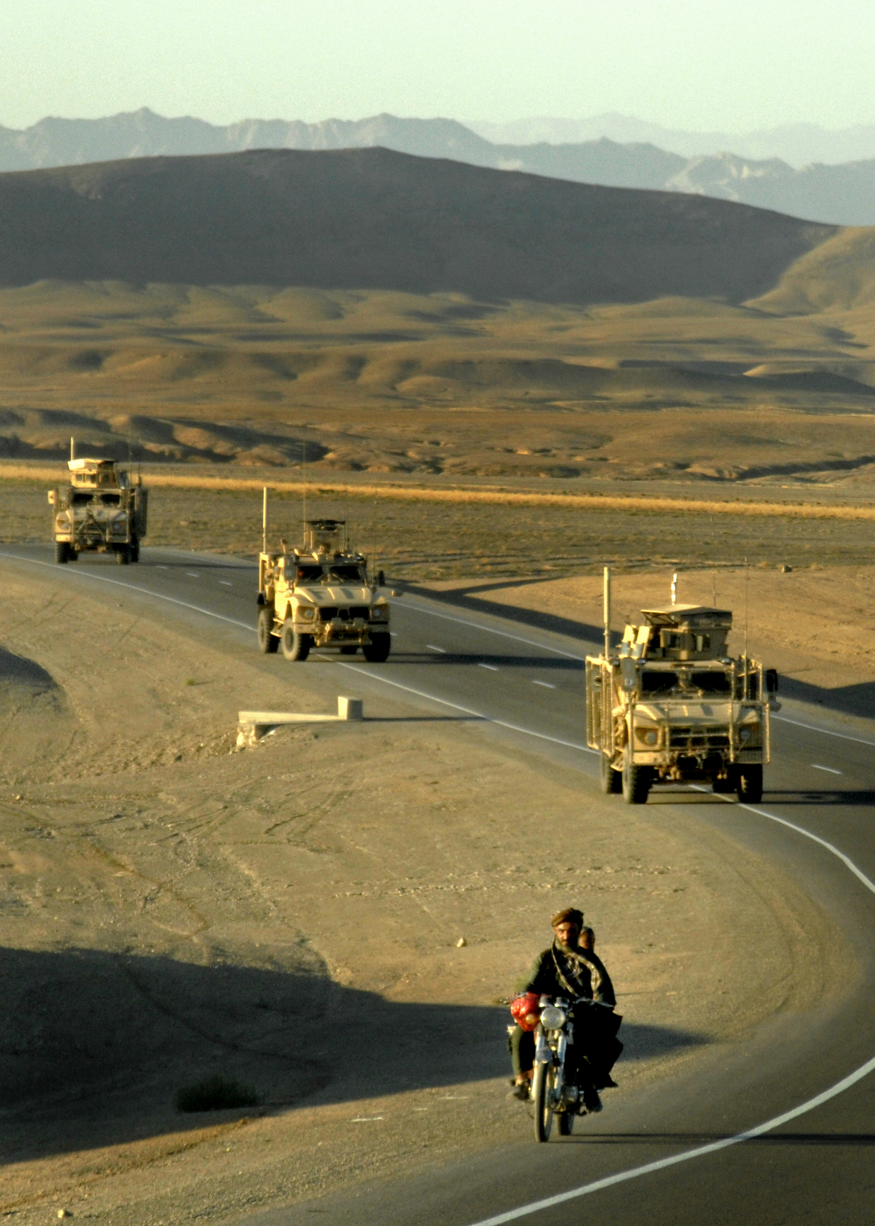 Provincial Reconstruction Team Zabul convoys along Highway 1 while sharing the road with local traffic, Qalat, Afghanistan, Oct. 16, 2011. PRT Zabul's mission is to conduct civil-military operations in Zabul province to extend the reach and legitimacy of the government of Afghanistan. (Photo ID: 477184)